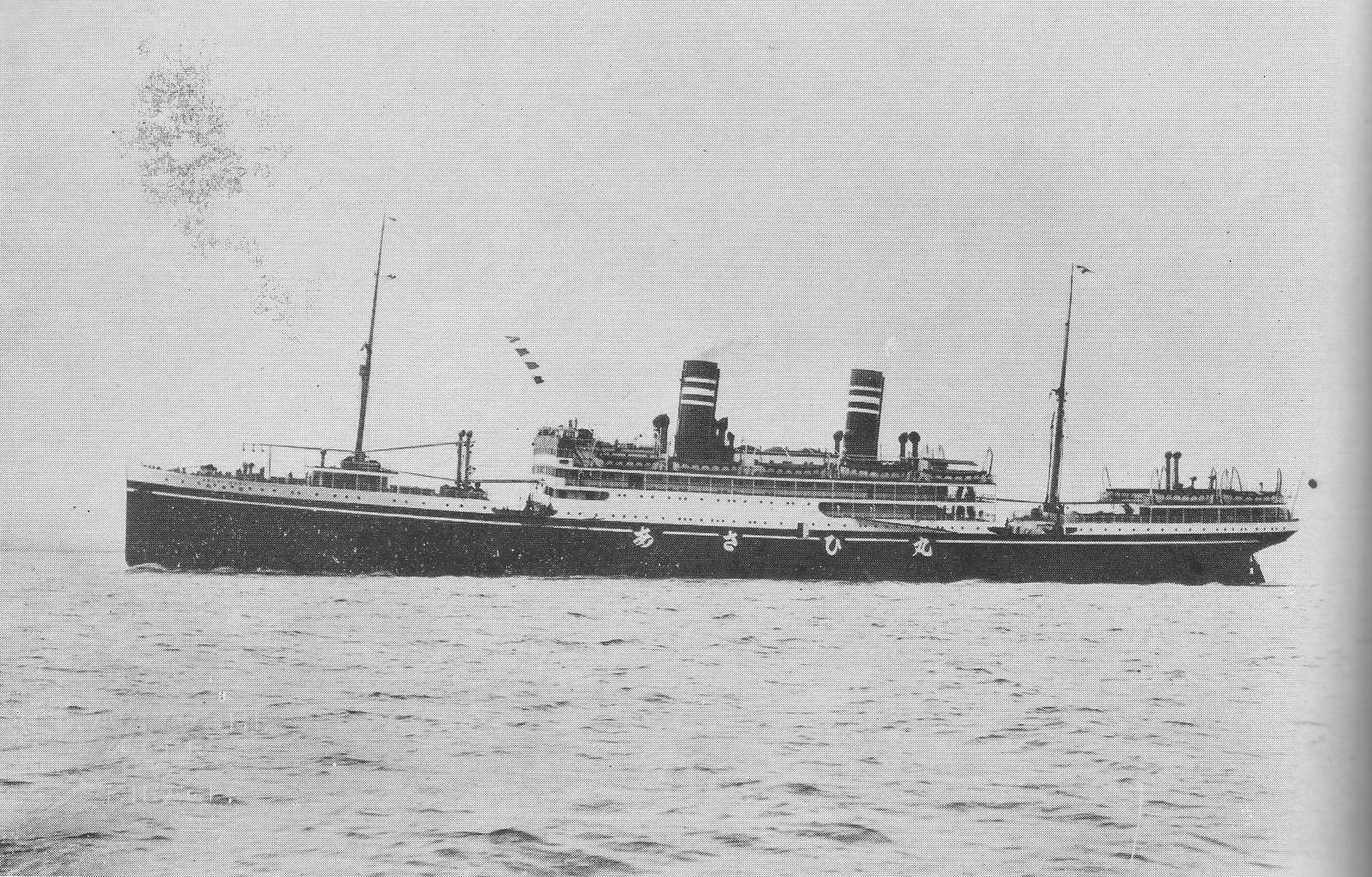 Kinkai Yusen "Asahi Maru" (ex-SS Dante Alighieri)